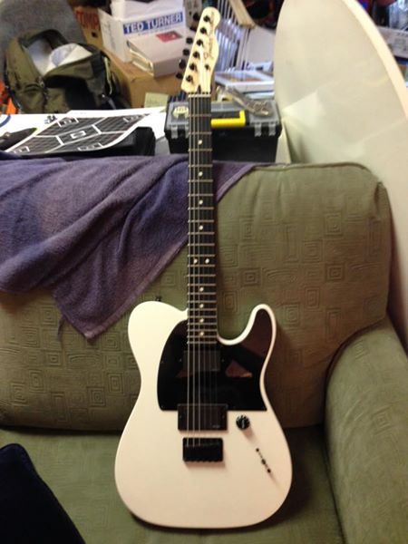 Jim Root Signature Fender Telecaster, 1st run year 2007. in flat white. Mahogany body, maple neck, Ebony fret board, 22 frets . 25.5 inch scale, emg 81/60 pickups.